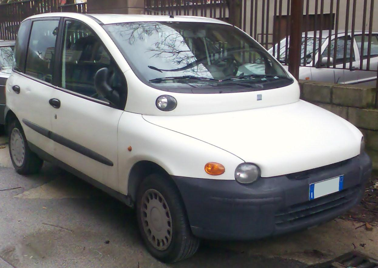 Fiat Multipla BiPower